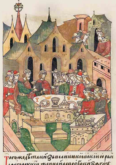 Marriage of Gleb of Kiev with Yaroslavna of Chernigov